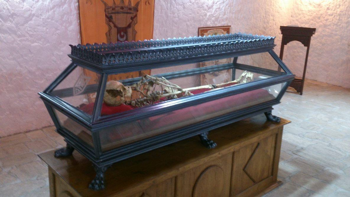 Skeleton believed to belong to Stephen Tomašević, the last King of Bosnia, in the Franciscan monastery in Jajce.